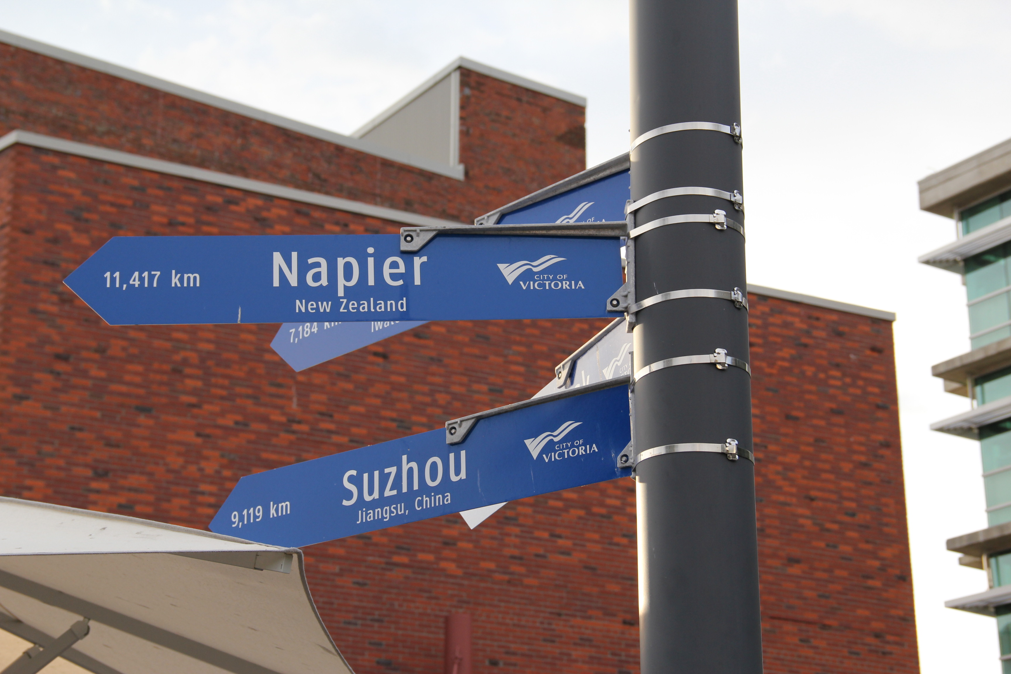 Street sign of sister cities in Victoria, Canada中文（中国大陆）: 加拿大维多利亚街头的路标。路标指向维多利亚的姐妹城市。